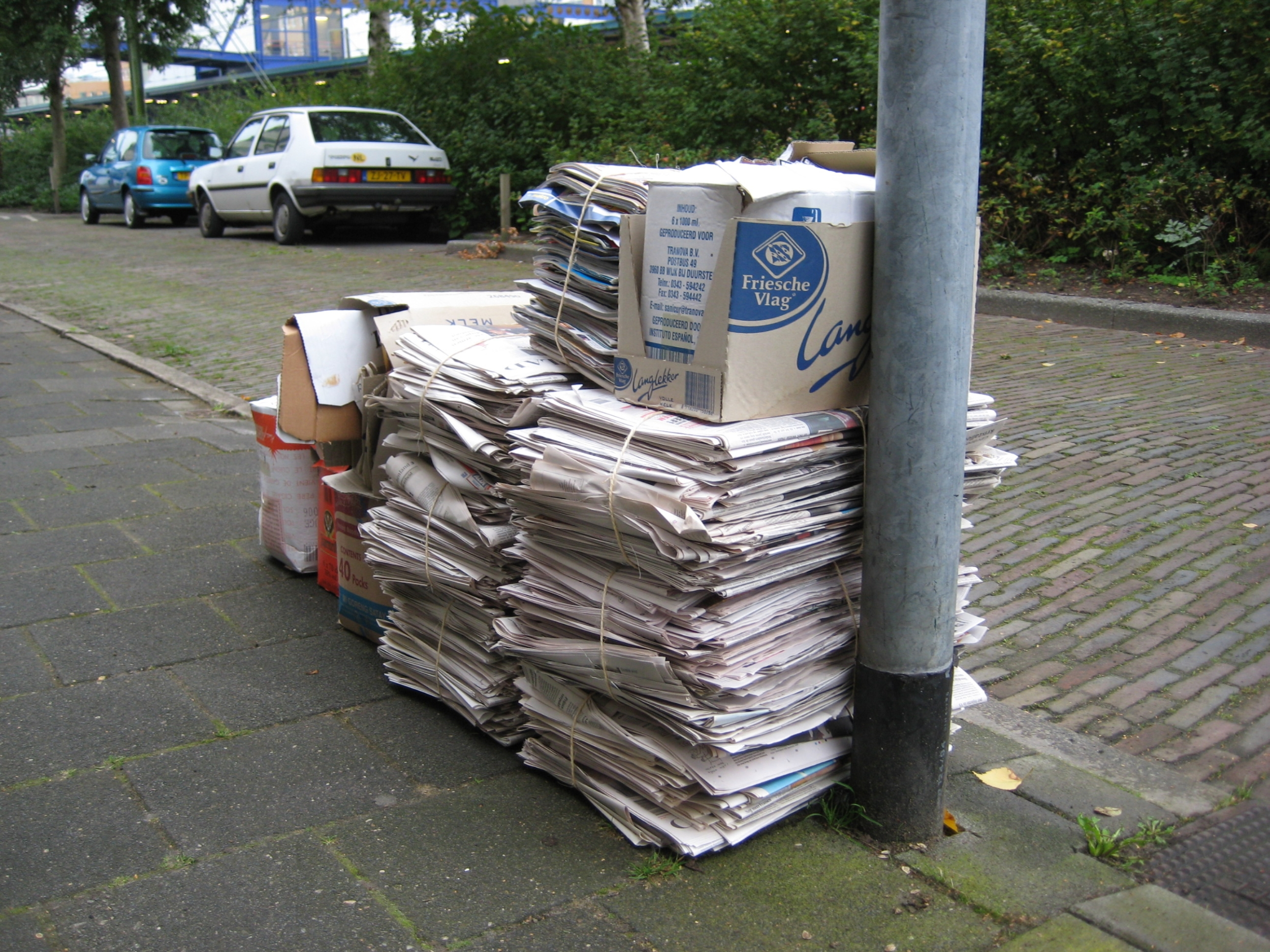 Waste paper waiting to be collected (Groningen, NL)